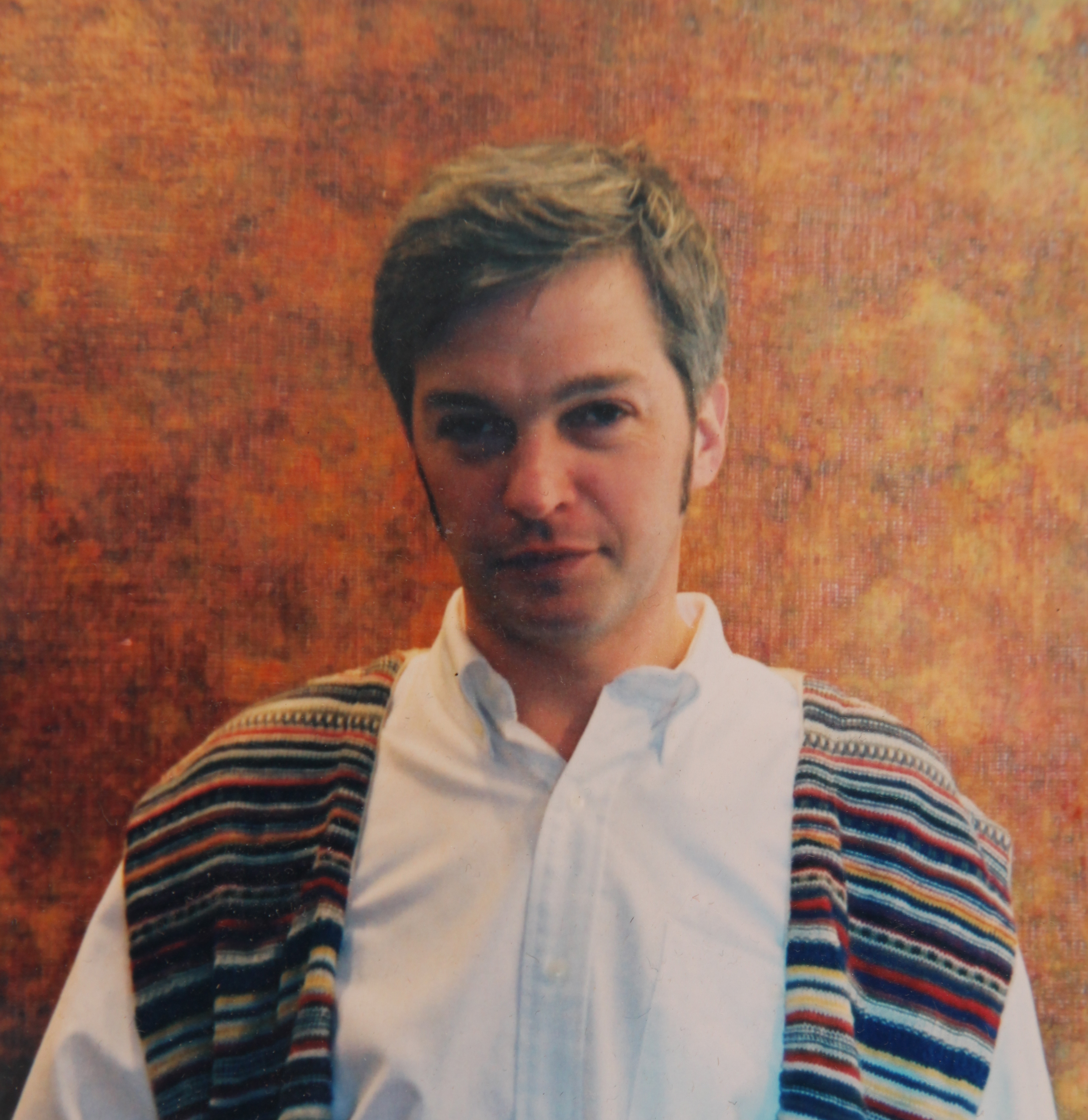 Alexey Chistyakov portrait